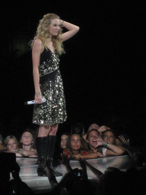 Country singer Taylor Swift performing on her 2009 stop in Jacksonville, Florida of the Fearless Tour.